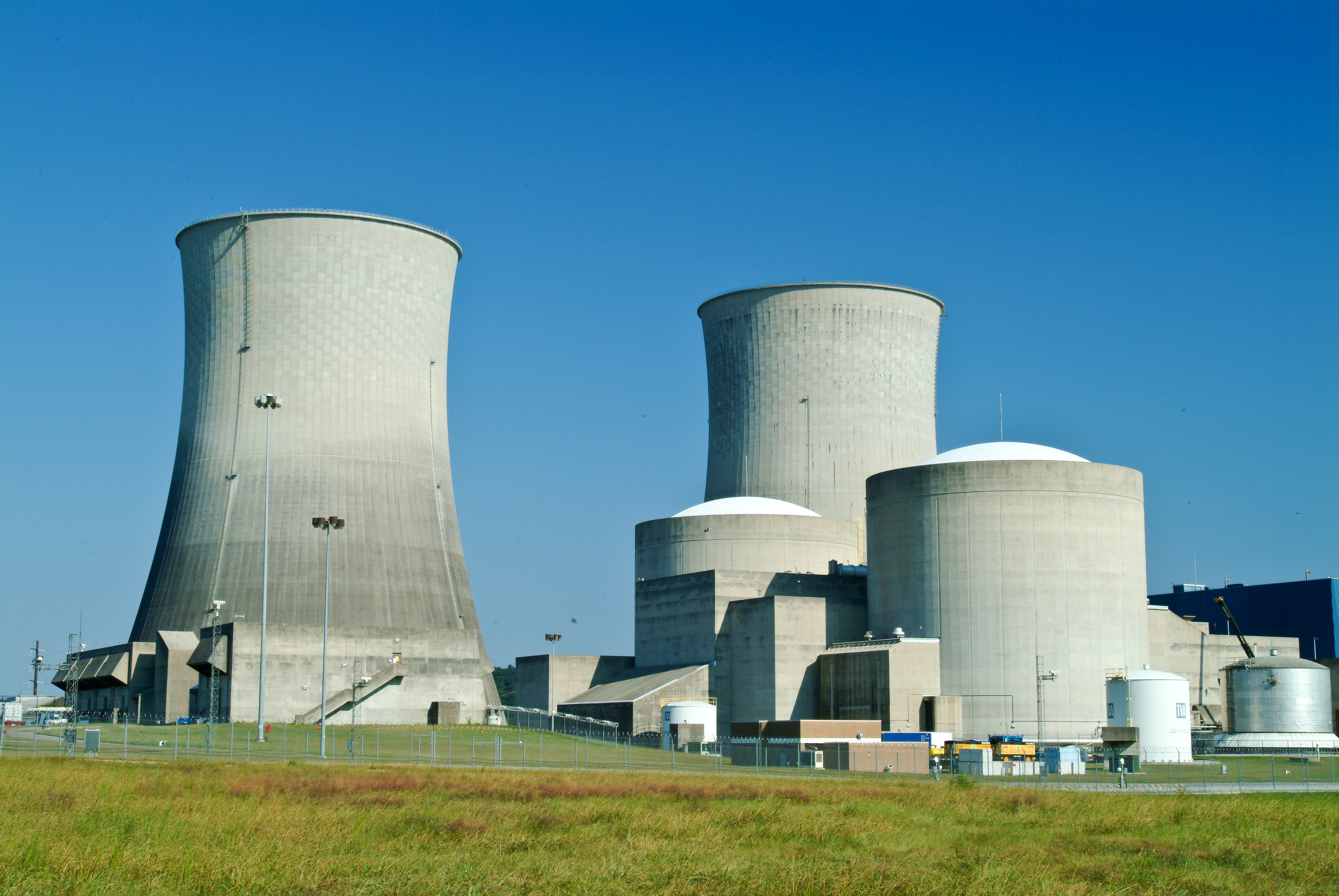 Watts Bar Nuclear Generating Station.